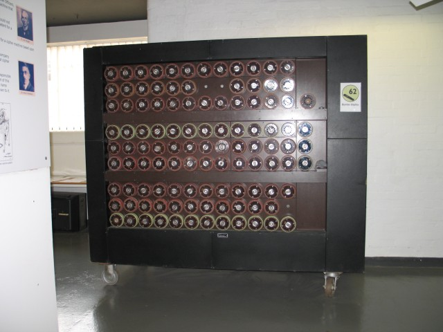 A Turing Bombe, Bletchley Park. The BOMBE was named after and inspired by a device that had been designed in 1938 by the cryptologist Marian Rejewski of the Polish Cipher Bureau, who revealed their deciphering technique to the British just prior to WWII. Unlike COLOSSUS 1590854, the bombe was not a programmable computer, but an electromechanical machine designed to assist British cryptologists to break into German Enigma-machine-enciphered wireless traffic. Designed by Alan Turing 1591025, with an important refinement suggested by Gordon Welchman, the bombe made its first appearance during 1940 and refinements followed, particularly in the later American version. A standard German Enigma employed, at any one time, a set of three rotors (in the German Navy, from early 1942, four rotors), each of which could be set in any of 26 positions. The bombe tried each possible rotor position and applied a test. The test eliminated thousands of positions of the rotors; the few potential solutions were then examined by hand. In order to use a bombe, a cryptanalyst first had to produce a "crib" - a section of ciphertext for which he could guess the corresponding plaintext. During the war, bombes were built by the British Tabulating Machine Company at Letchworth and by May 1945 there were 211 operational machines requiring nearly 2,000 staff to run. After the war some fifty bombes were retained in Britain for intelligence work, while the rest were destroyed. A team led by John Harper conducted a 13-year project to reconstruct a working bombe, which was completed in 2007 and can be seen at the Bletchley Park Museum. For more information about the BOMBE, see . . . . For other views of the bombe, see: 1590899; 1590986; 1590989; 1590991; 1590992; 1590993; 1590996; 1590997